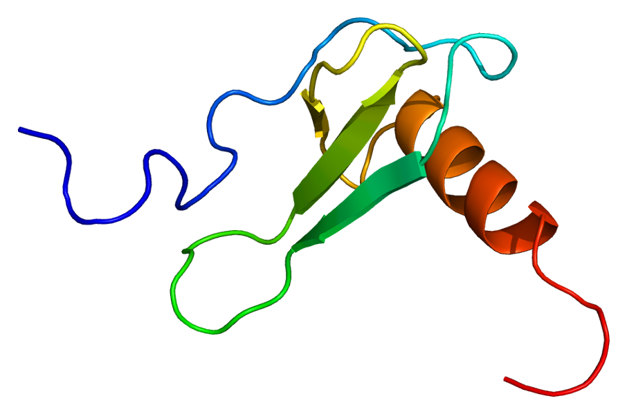 Structure of the CCL11 protein. Based on PyMOL rendering of PDB 1eot.